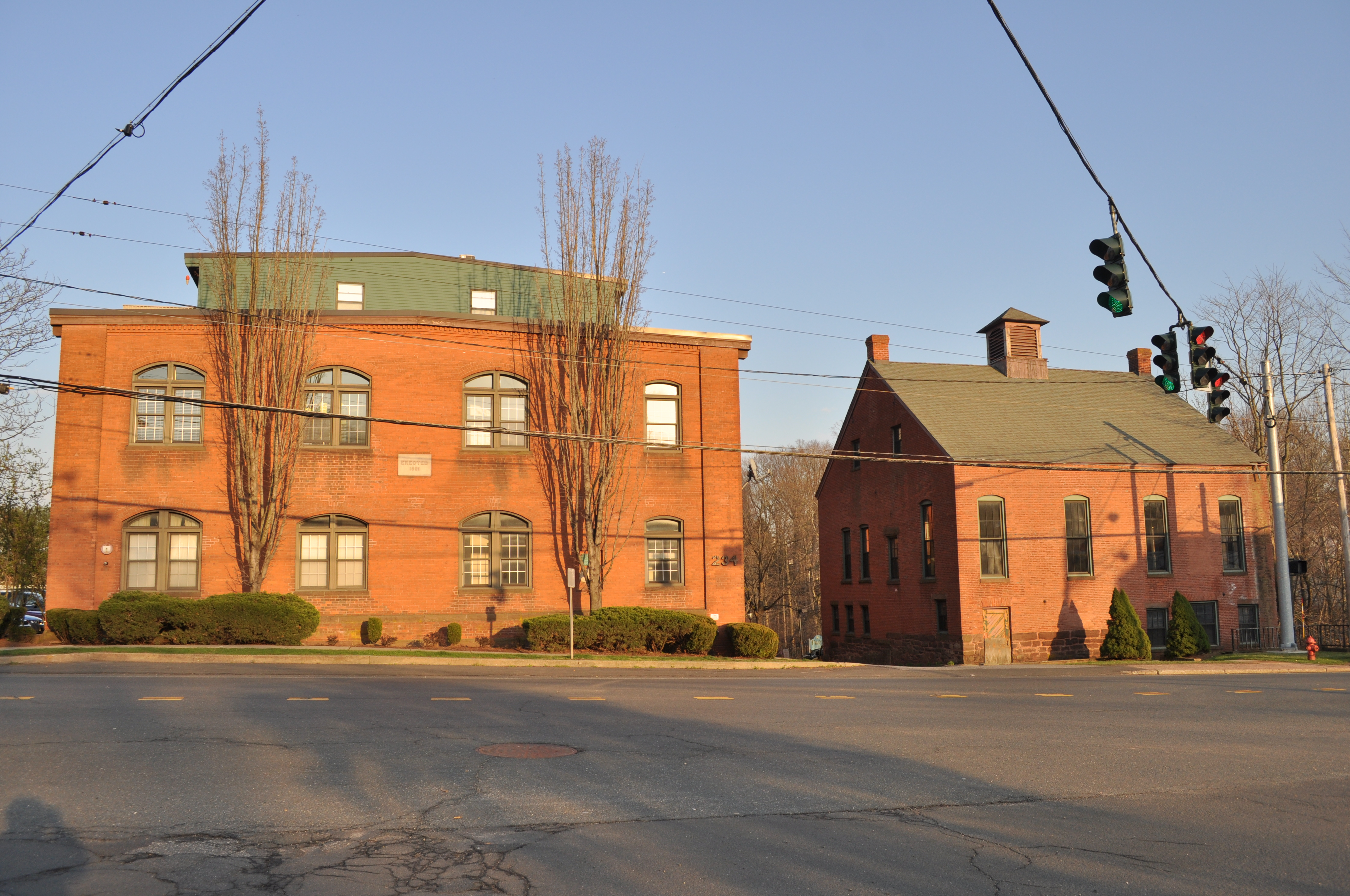 Mill B (left, built in stages 1901-1912) and Mill A (right, built 1814), Wilcox, Crittenden Mill, South Main, Middletown, Connecticut, USA. Now condominiums.